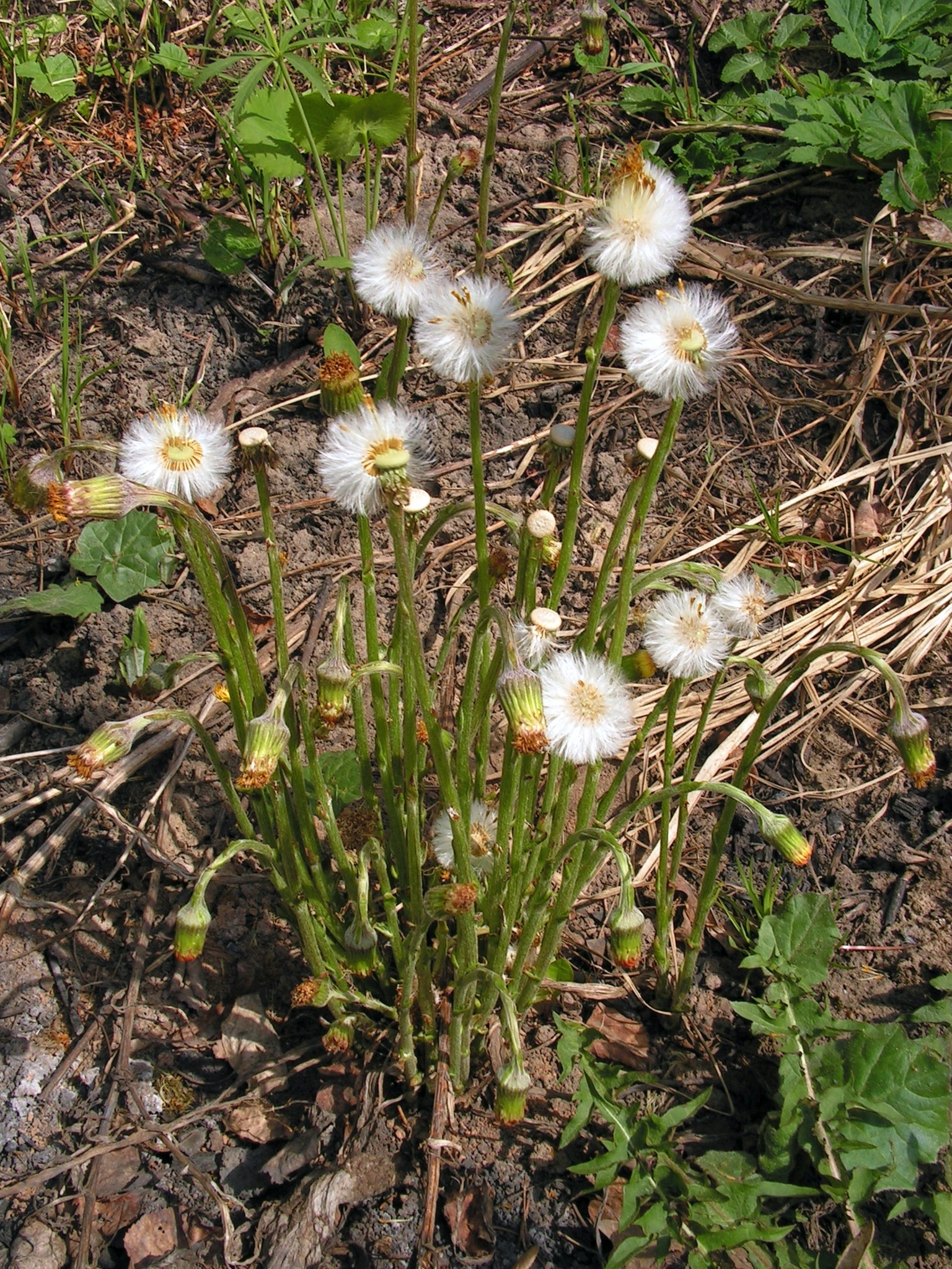 Coltsfoot with fruits. Moscow region, Russia.